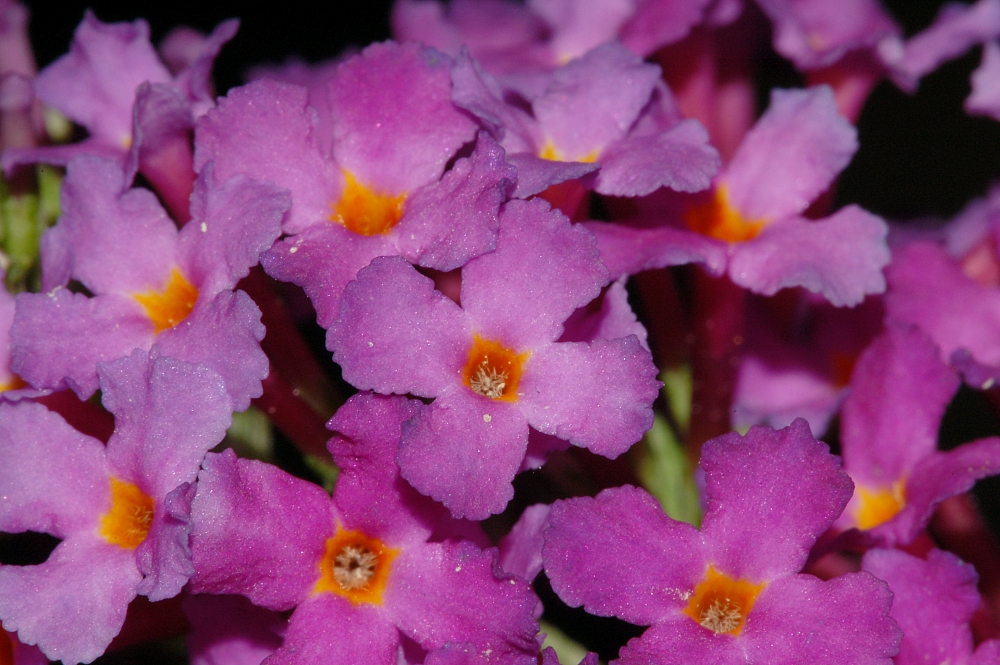 Buddleja davidii, Nied, Frankfurt/Main, Germany